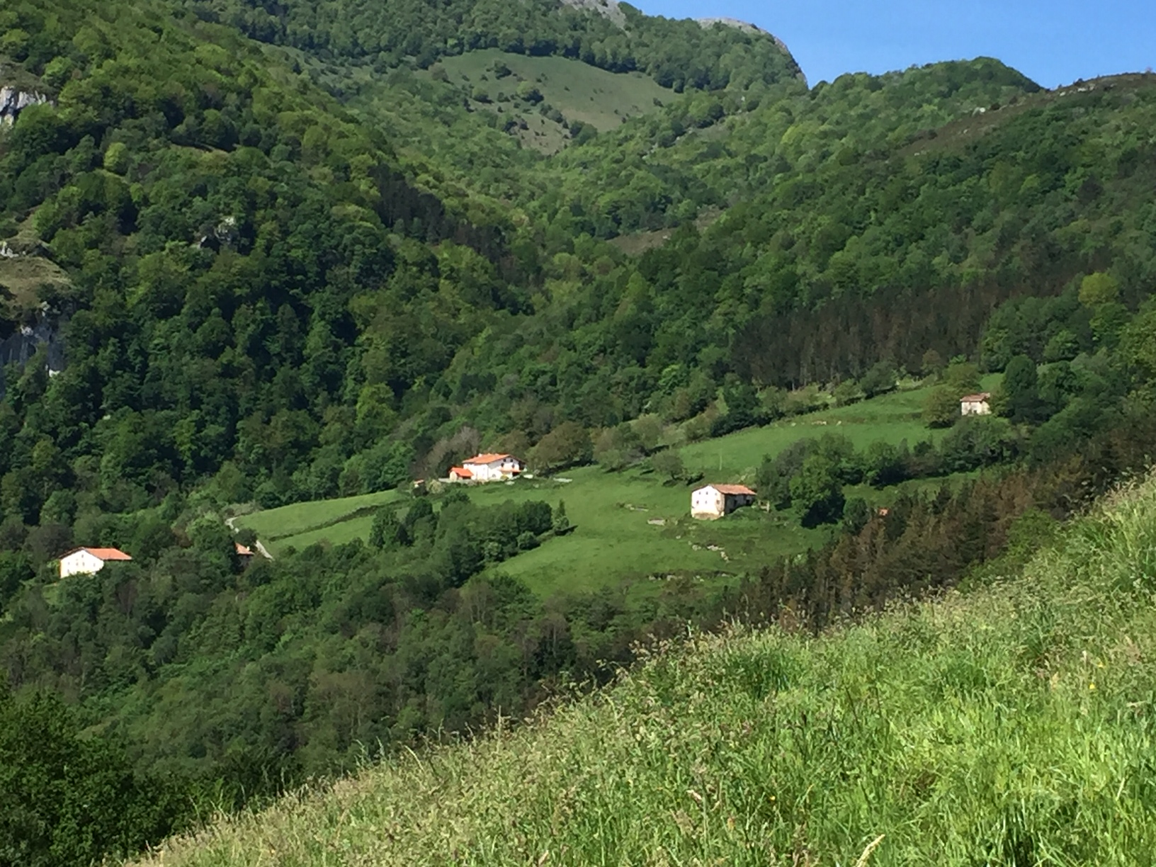 Arantzabe,Aritzategi, Tonttor & Pedrojuanena farmhouses